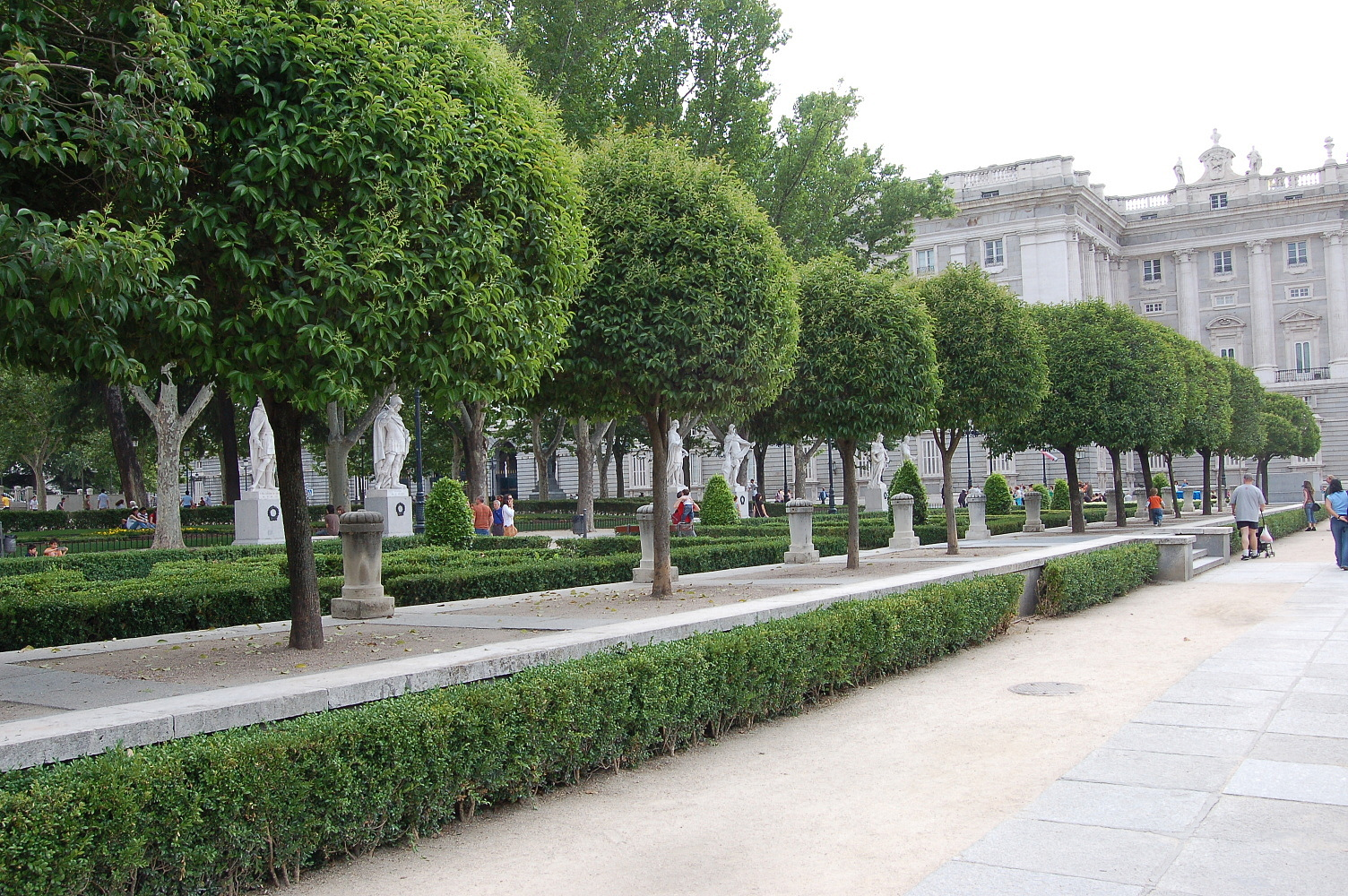 Partial view of the Plaza de Oriente (square) in Madrid (Spain). At the left, some of the statues of monarchs from the Royal Palace (in the background) sculpted between 1750 and 1753.